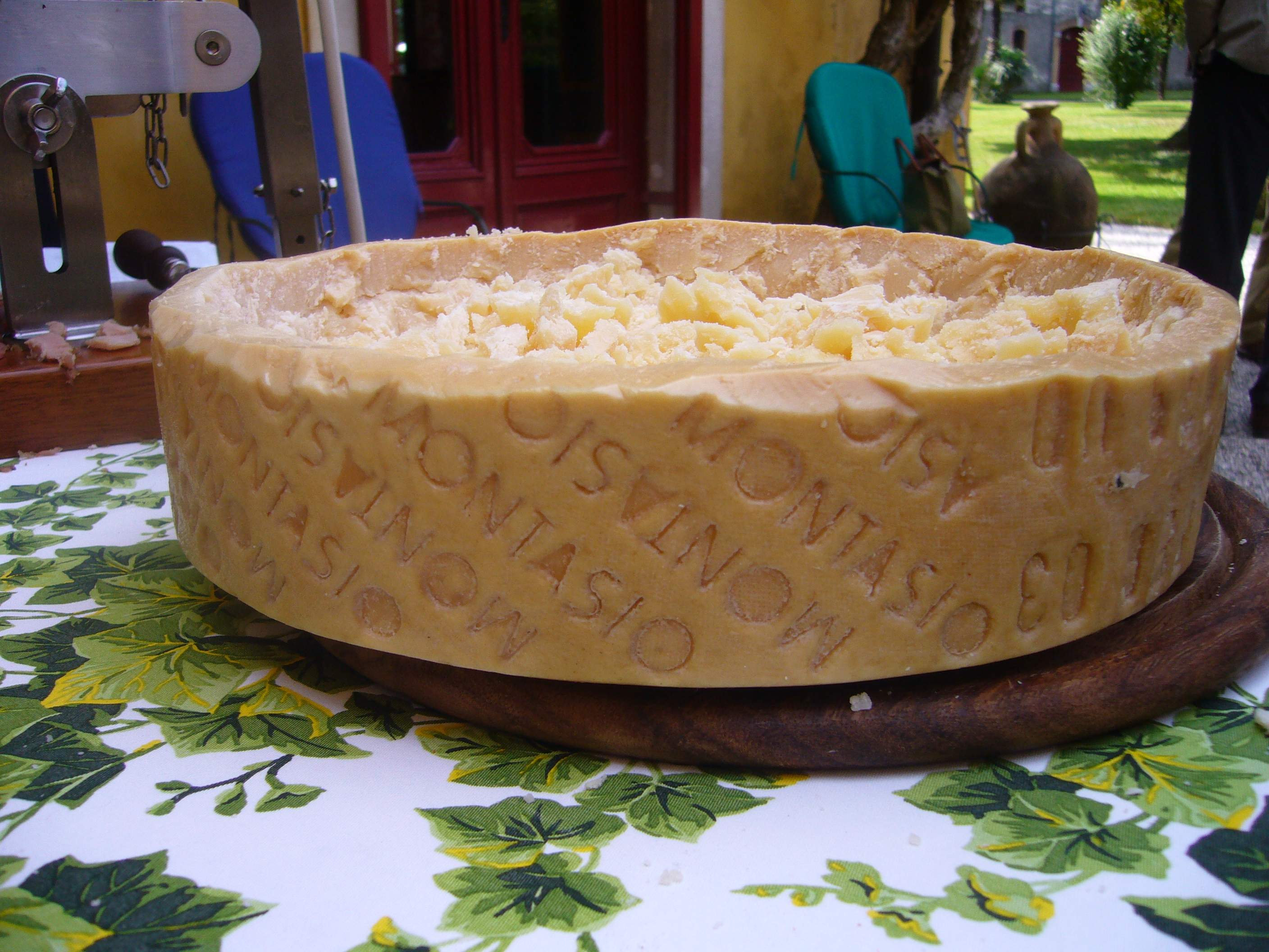 Montasio cheese from Friuli, Italy